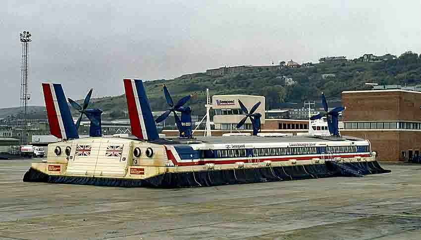 Seaspeed SRN4 hovercraft GH2007 The Princess Anne at Dover in 1980. Scanned from a Kodachrome 35mm slide.